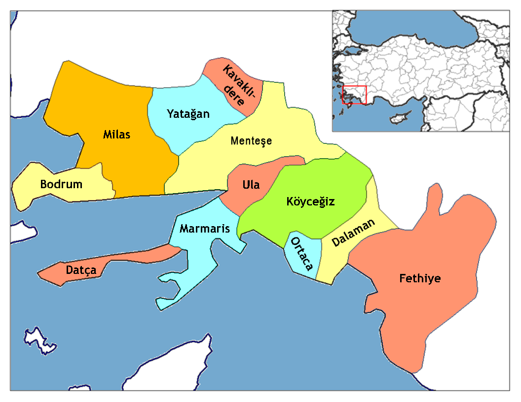 This is Map of the districts of Muğla province in Turkey. Created by Rarelibra 16:37, 4 December 2006 (UTC) for public domain use, using MapInfo Professional v8.5 and various mapping resources. Edited by One Homo Sapiens Corrected text where İ,Ş,ı,ğ,or ş occurs in name. Source: [statoids-com]. Increased font size and enhanced color differences among adjacent districts.